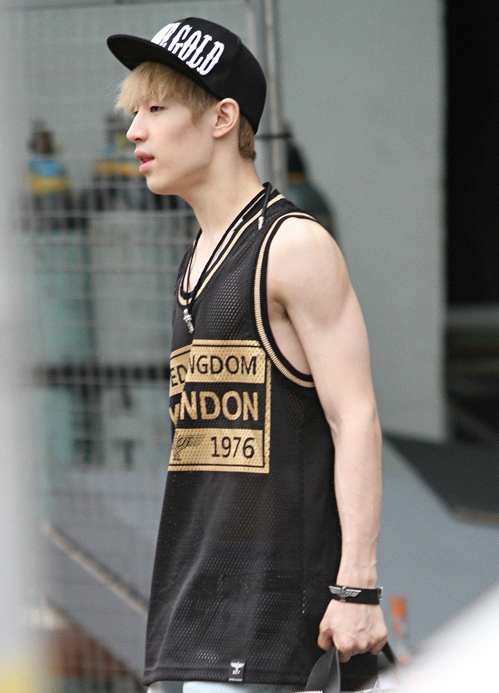 Henry Lau rehearsal after the end Super Show 5 in Singapore on July 5, 2013.